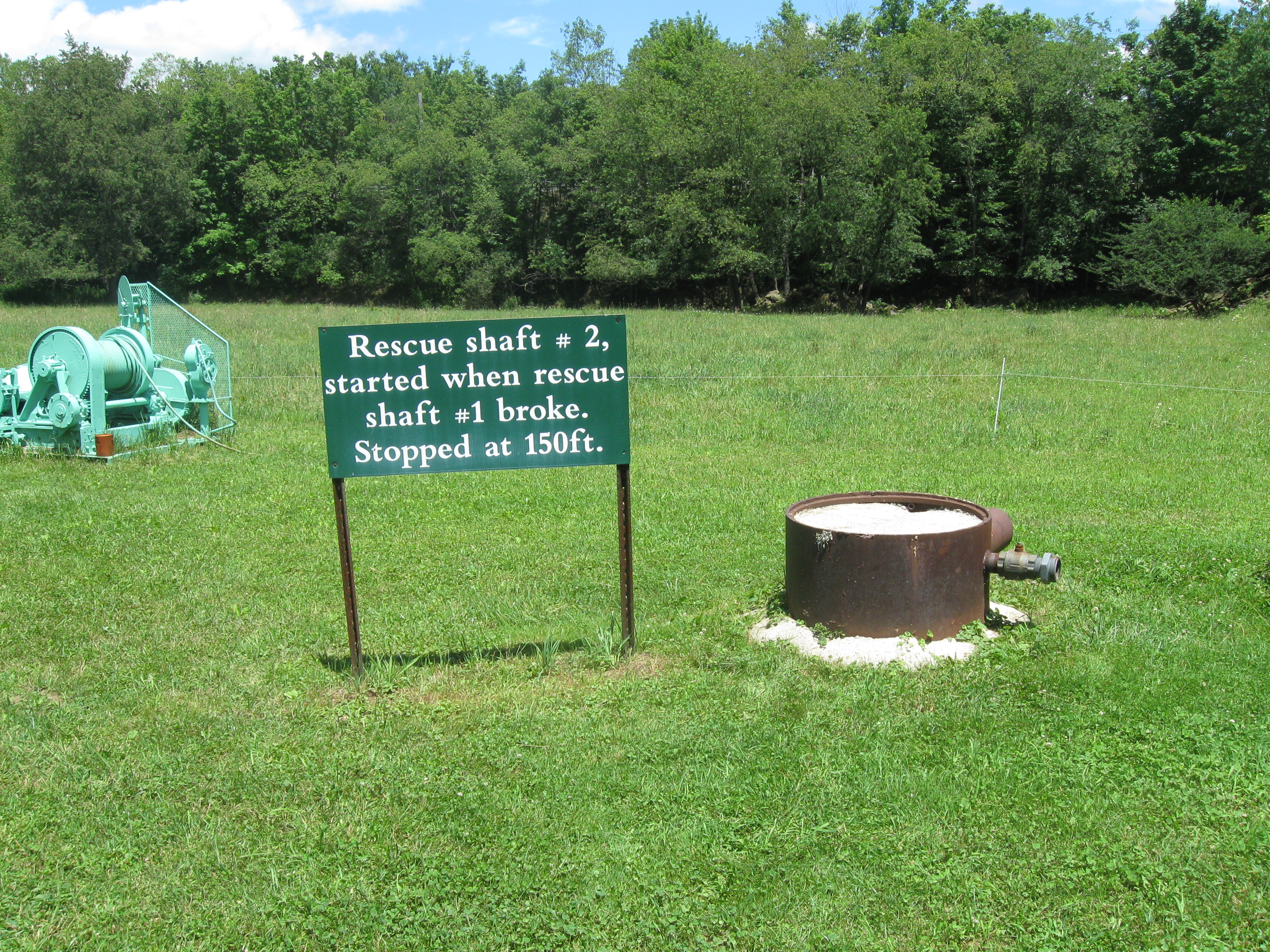 A second, backup shaft drilled at the Quecreek Mine Rescue site in 2002 in case drilling was not able to continue at the initial location. This shaft was not used and drilling ceased after the first shaft broke through into the mine, leading to the rescue of all nine miners.